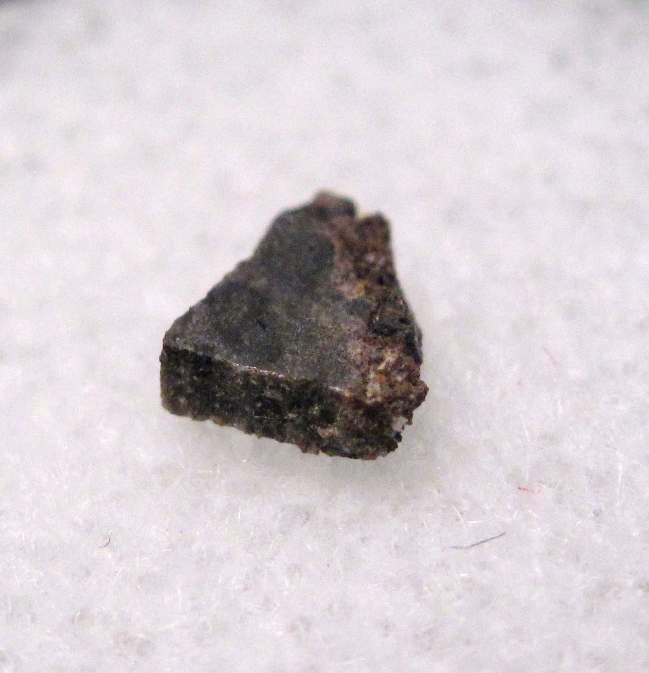 Olivine-Orthopyroxene-Phyric shergottite. 0.082 g fragment. This interesting meteorite has olivine megacrysts surrounded by low-Ca pyroxene and maskelynite. TKW is 315 grams.